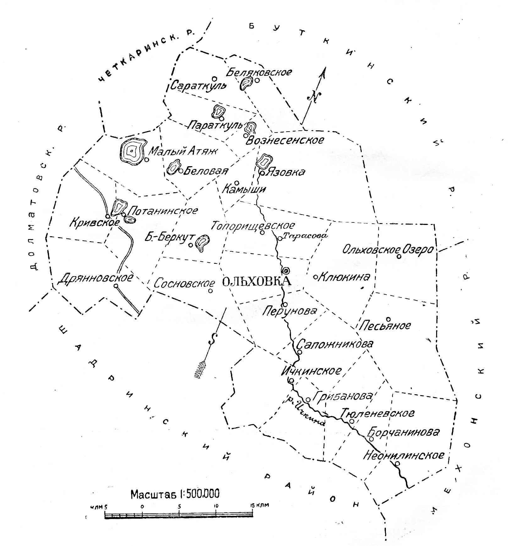 Map of Olkhovskiy rayon (Shadrinskiy okrug of Uralic Region of RSFSR) in 1928.